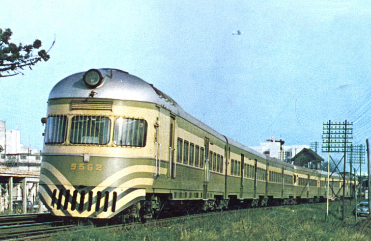 Promotional photo for the Fiat 7131 diesel railcar, painted in green and ochre.